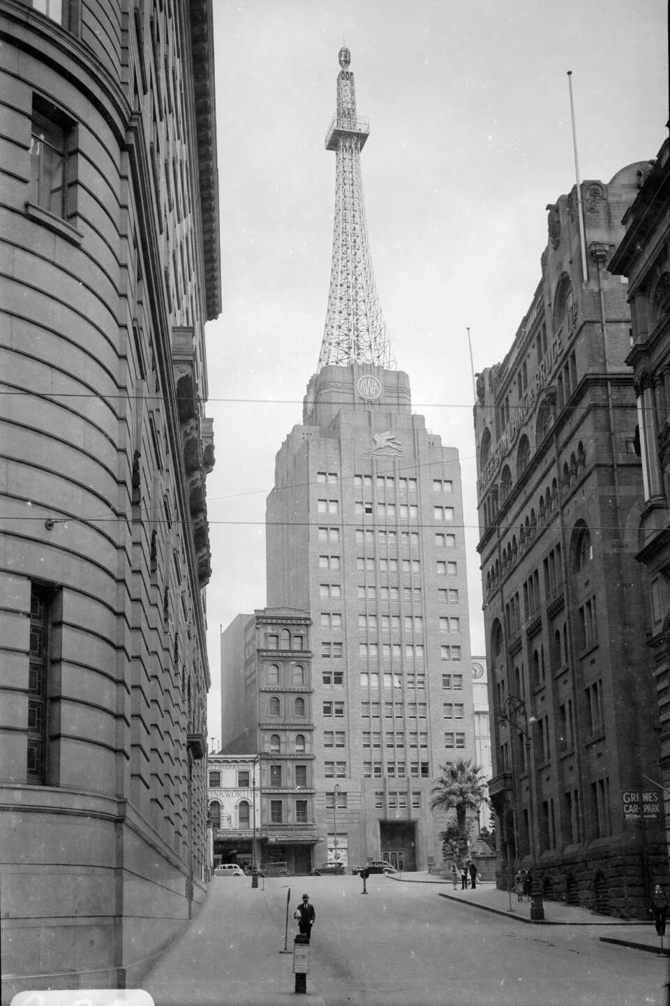 Black and white photo looking down a laneway, through a canyon of tall buildings, towards a high-rise art deco building with a transmission-like tower on its roof. A person is visible in the street.